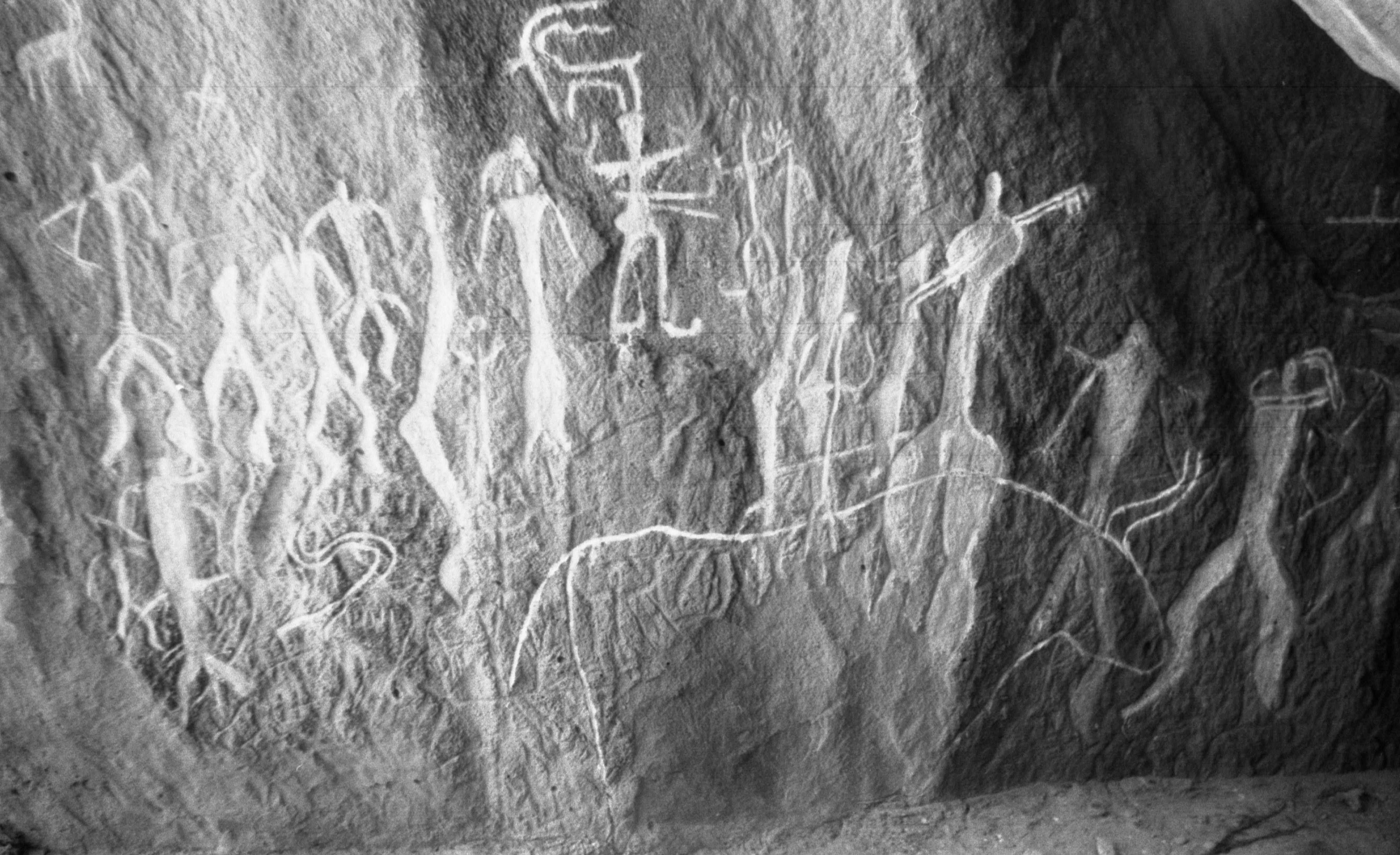 caves of Gobustan 1987